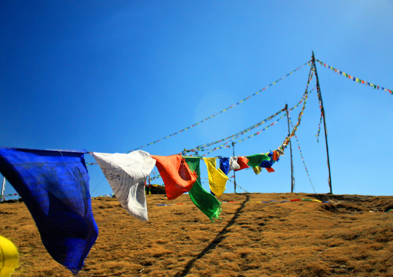 ..keeps on galloping up in the air.